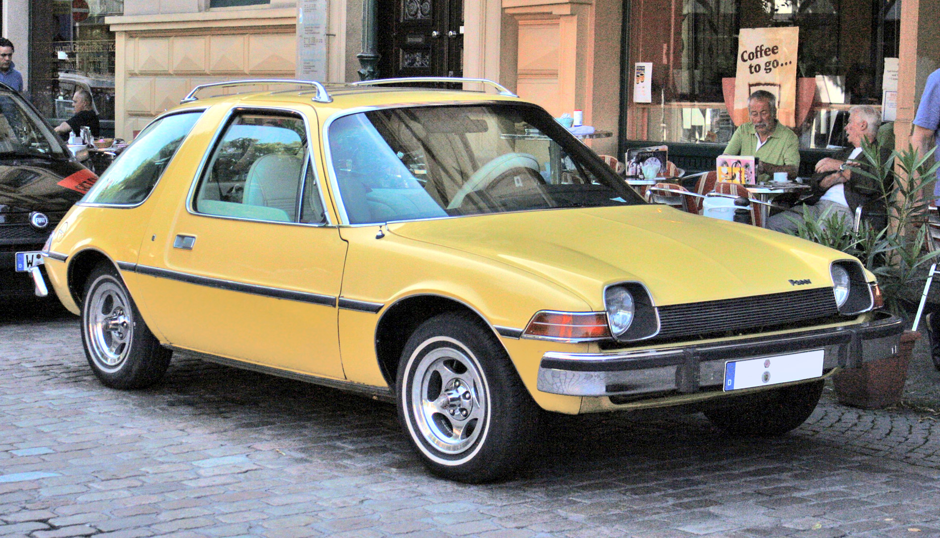 AMC Pacer, photographed during August 2009.